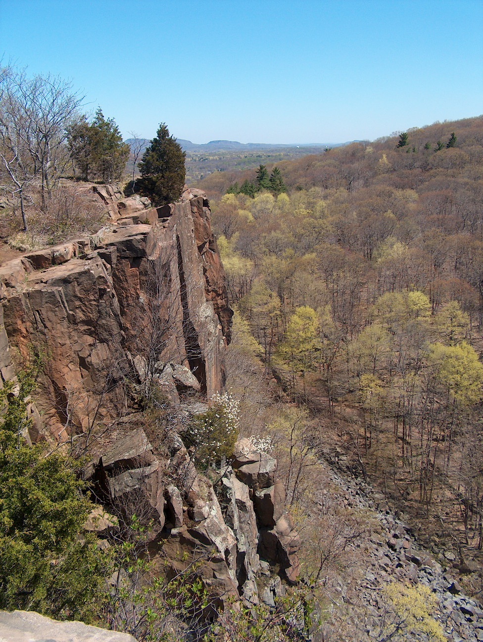 Sleeping Giant in Hamden, Connecticut. Photo by Ken Gallager, April 28, 2006.